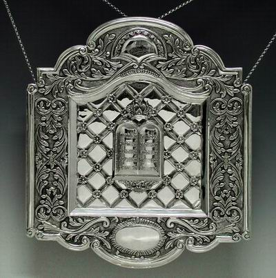 A Silver Breast plate used to decorate a Torah Scroll. This Torah Plate was made by Hadad Brothers in Israel.